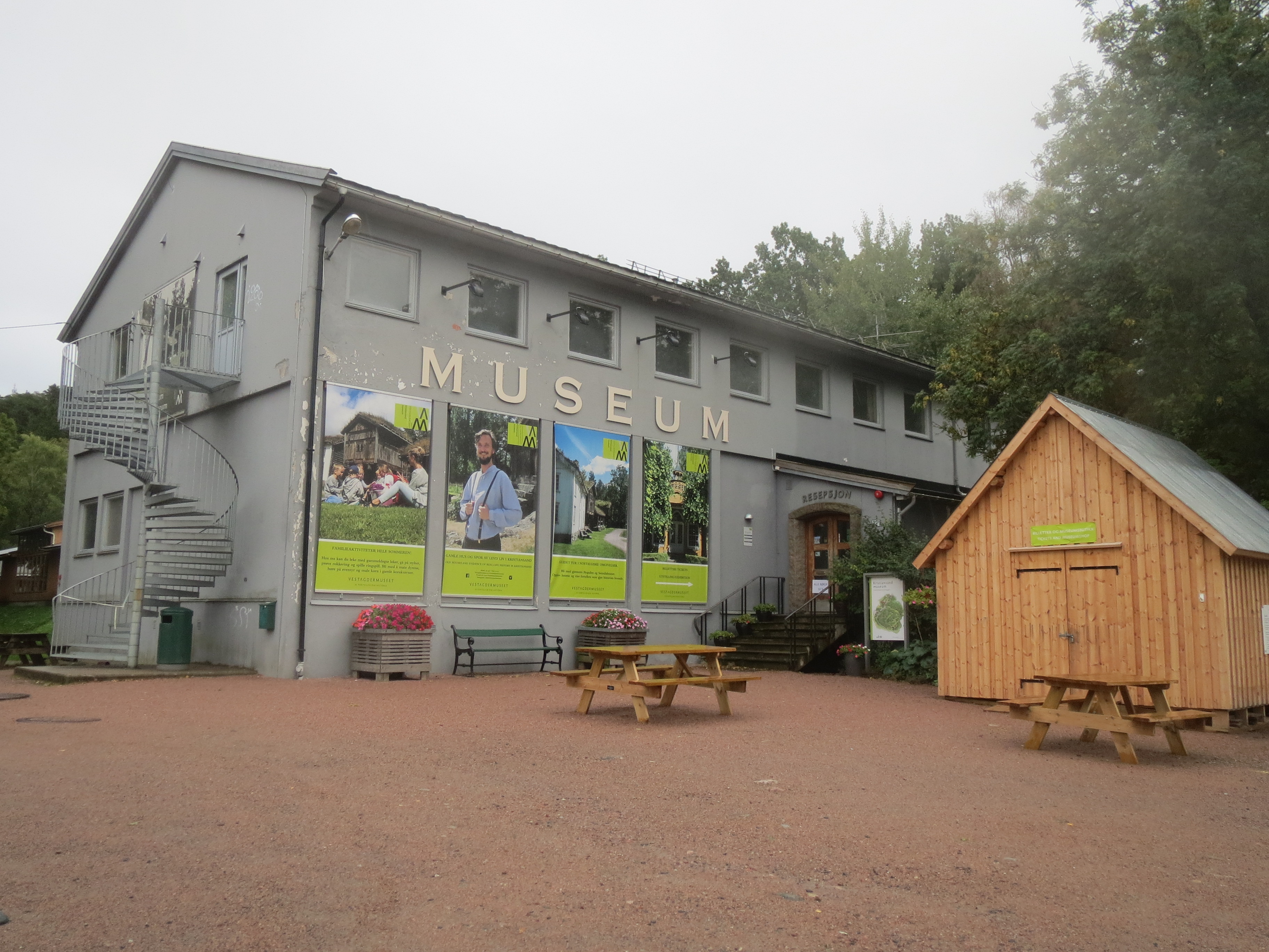 Vest-Agder Museum Kristiansand, Norway, Main exhibition building,, September 2018